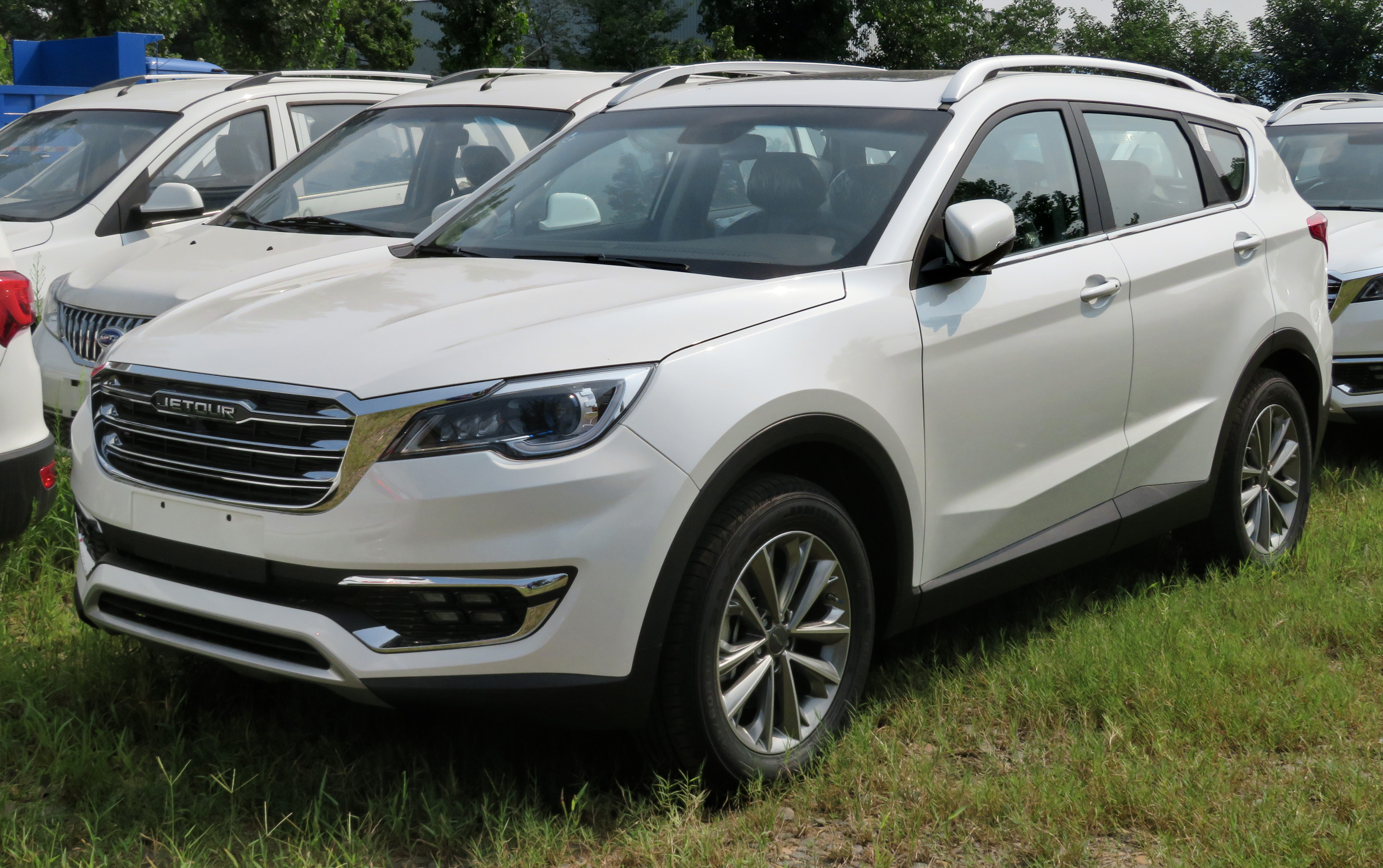 A 2018 Chery Jetour X70 photographed at Guanlinzhen, in Luoyang, Henan province, China